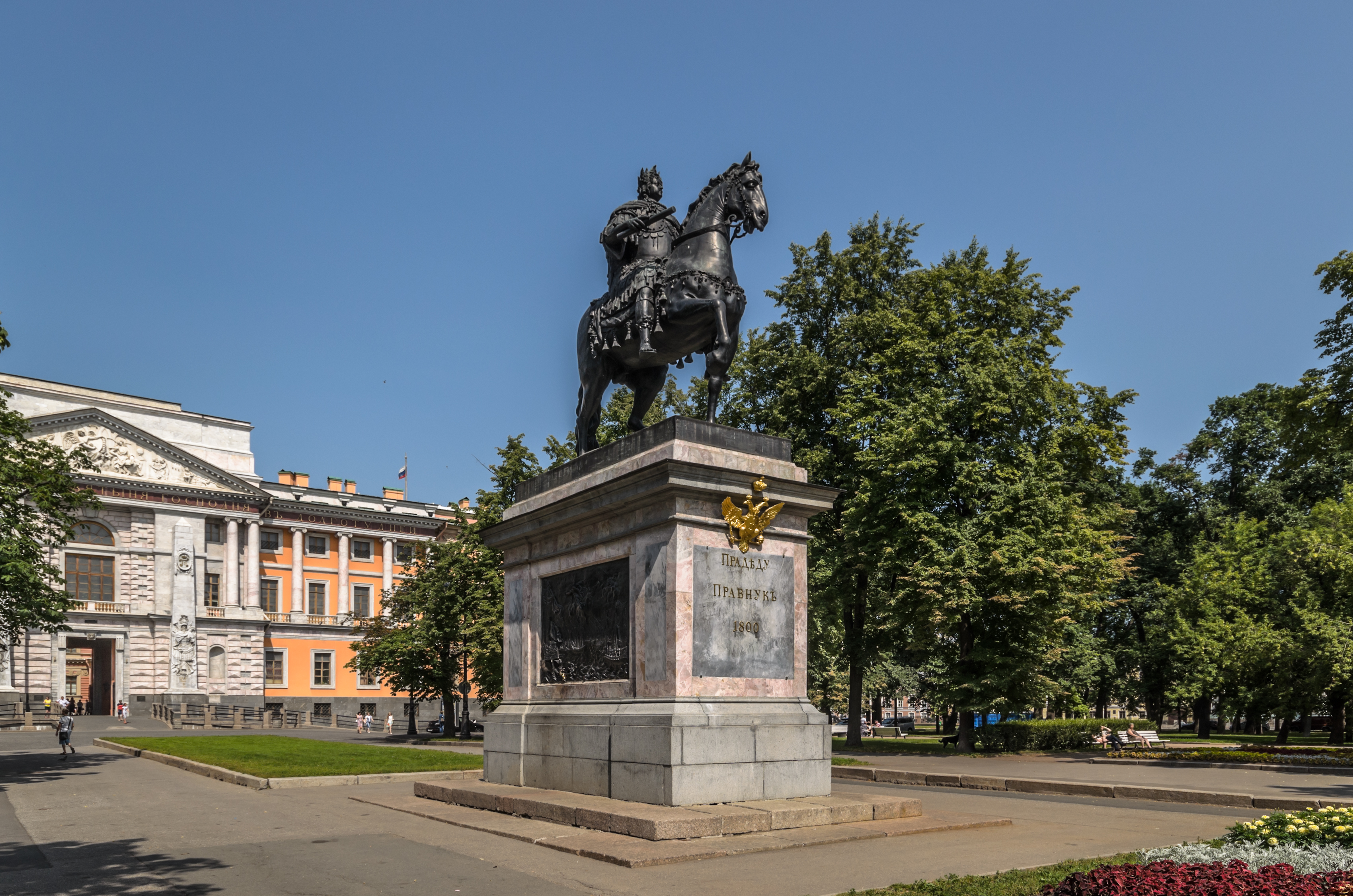 Monument to Peter the Great near Saint Michael's Castle in Saint Petersburg